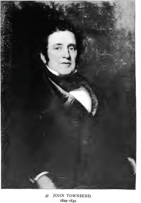 Photograph of an oil painting of John Townsend, Mayor of Albany, NY.